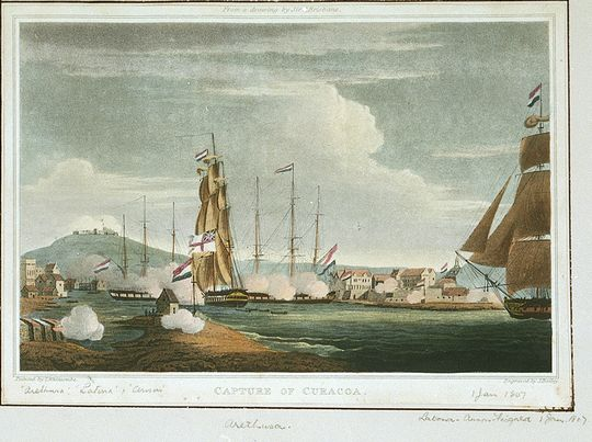 Capture of Curacoa, 1 Jan 1807